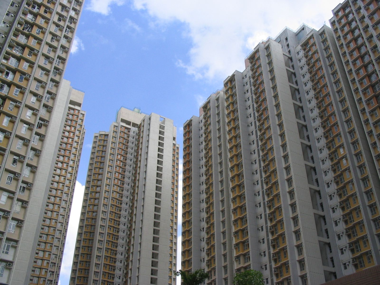 沙田-愉翠苑 Yu Chui Court, Sha Tin